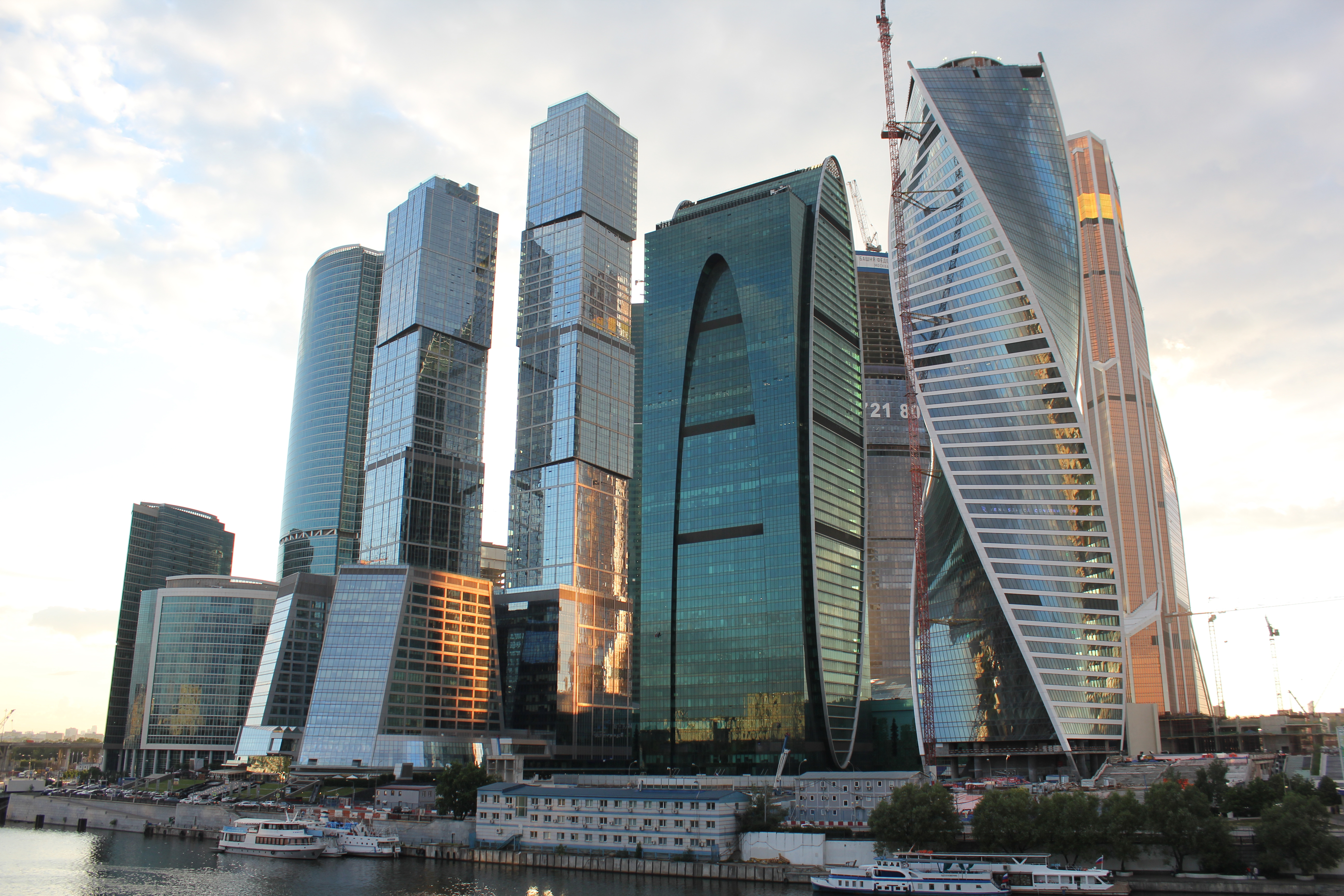 MIBC 12th June 2014